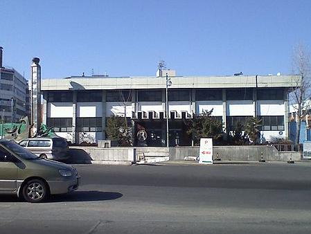 Gwangju sangmu gymnasium